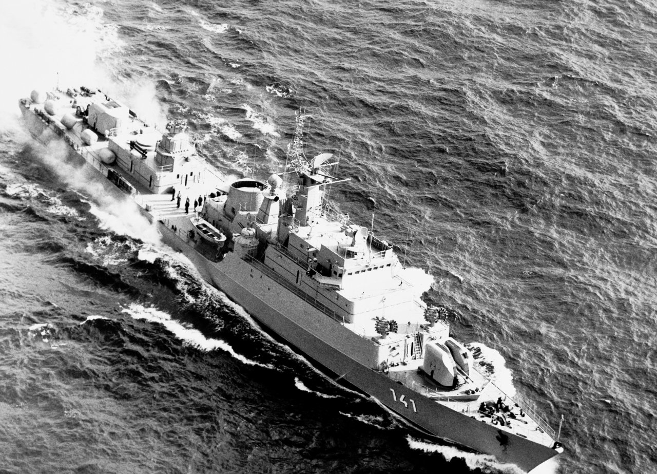 National Archive# NN33300514 -- Aerial starboard bow view of the Soviet-built Koni (Project 1159) class East German frigate ROSTOCK underway.